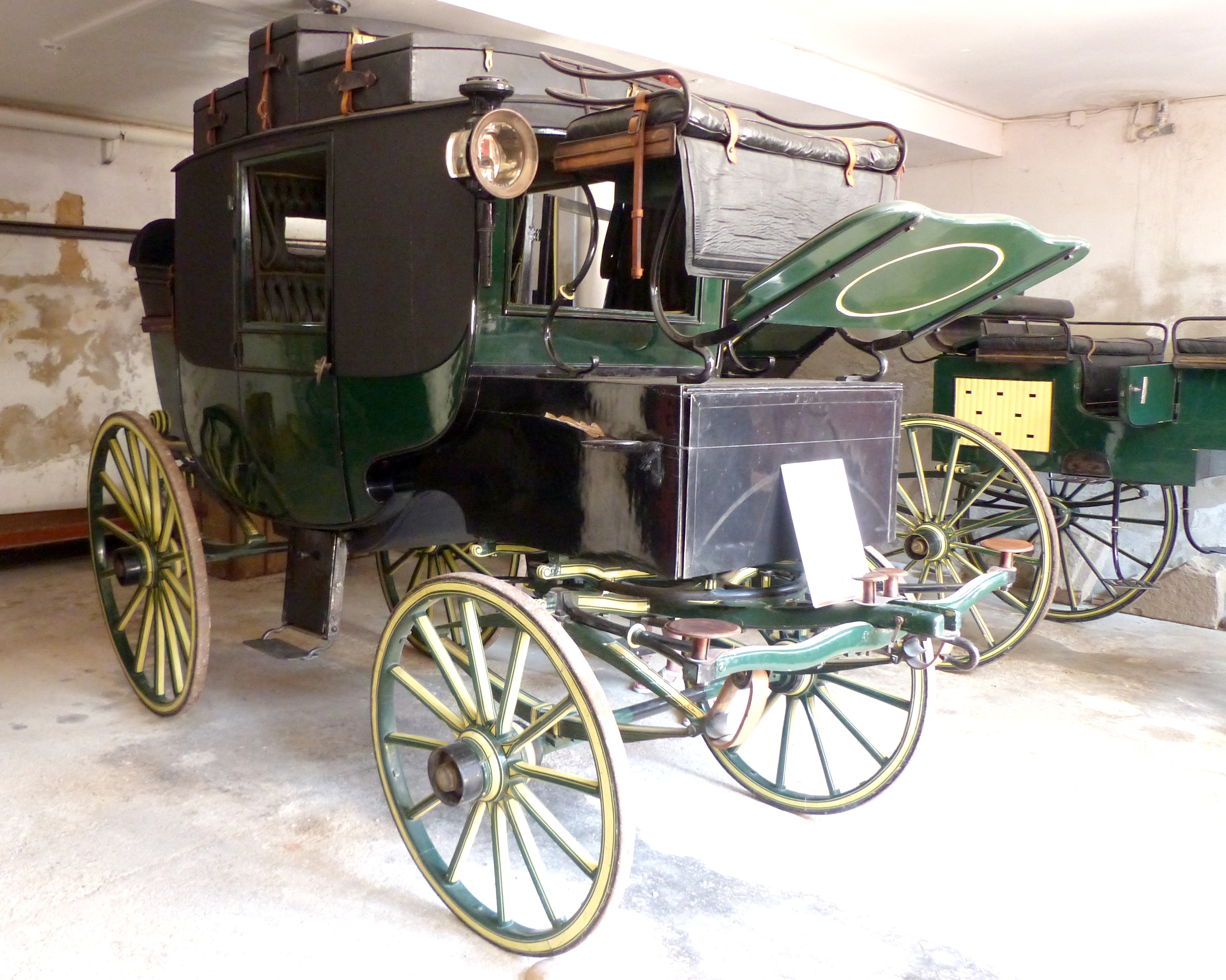 Saint-Gilles (Gard, Occitanie, France), domain of Espeyran, one of the five remaining horse-drawn carriages that belonged to the Sabatier family of Espeyran: large 8-seater travel berlin carriage, 4 inside for the masters and 4 outside for the servants.